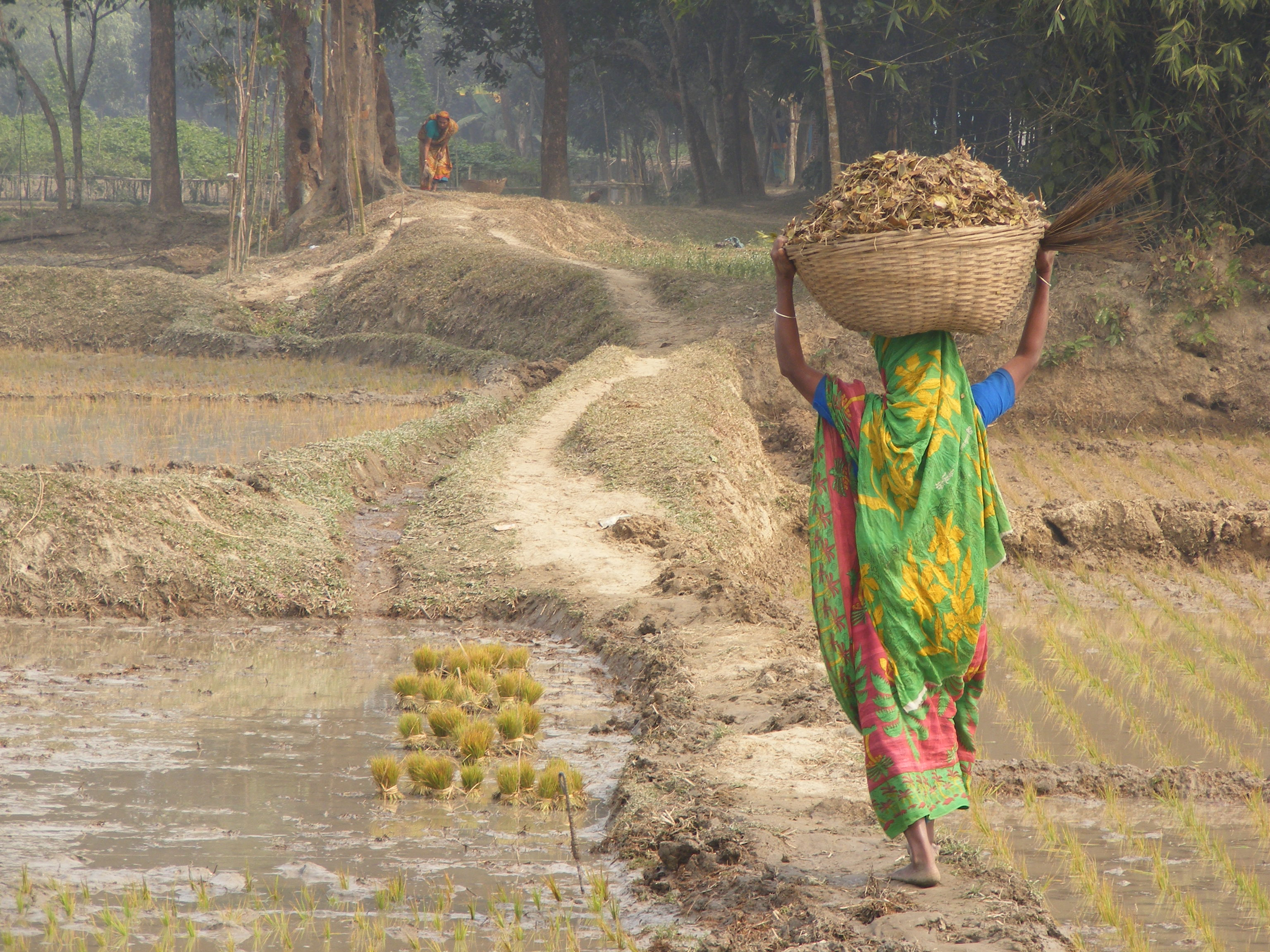 rural woman work